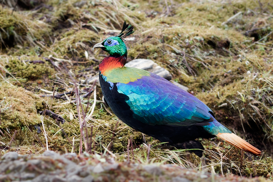 This bird species Himalayan Monal an adult male has been photographed at the district of East Sikkim in the state of Sikkim of India on 11th May 2014, during the customized birding photography tour of GoingWild.